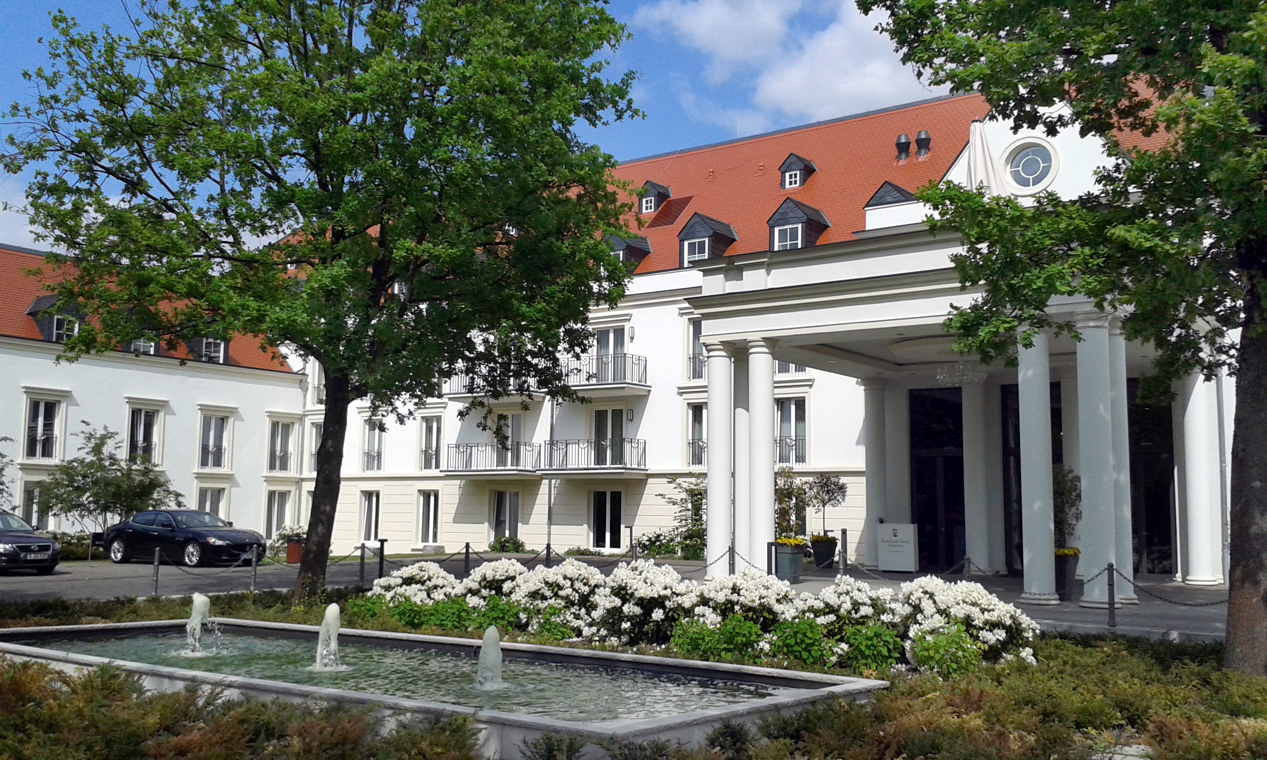 Kempinski Frankfurt 2016